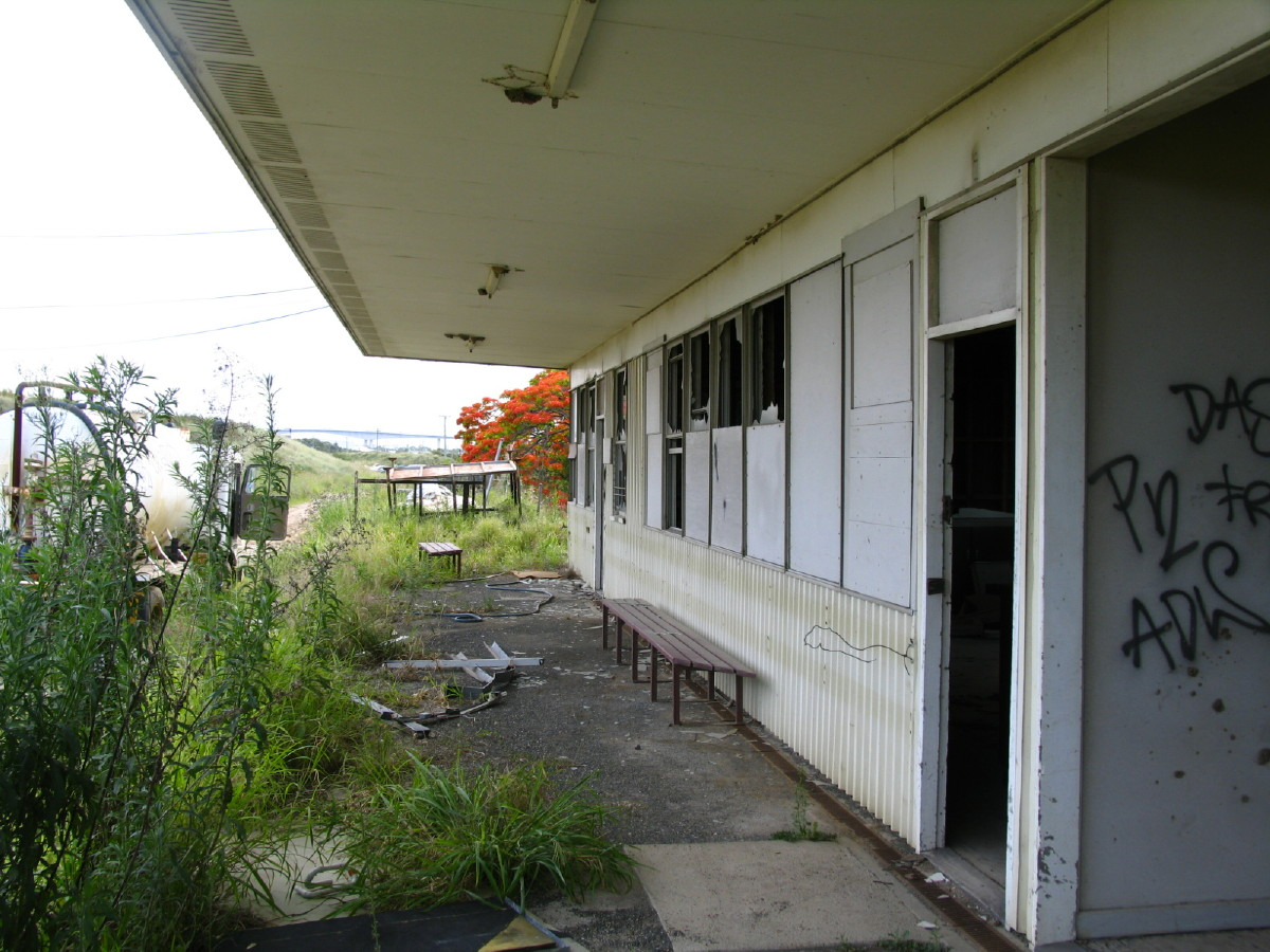 The abandoned Pinkenba railway station in Brisbane, Australia -- a track-side shot.